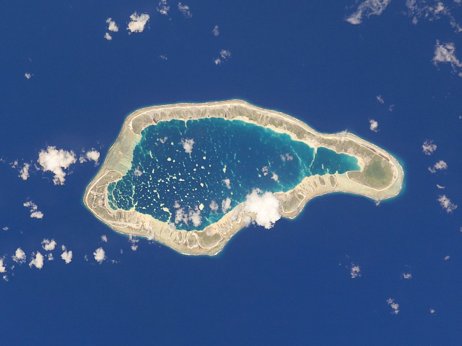 NASA astronaut image of Napuka Atoll (Tuamotu Archipelago, French Polynesia) in the Pacific Ocean